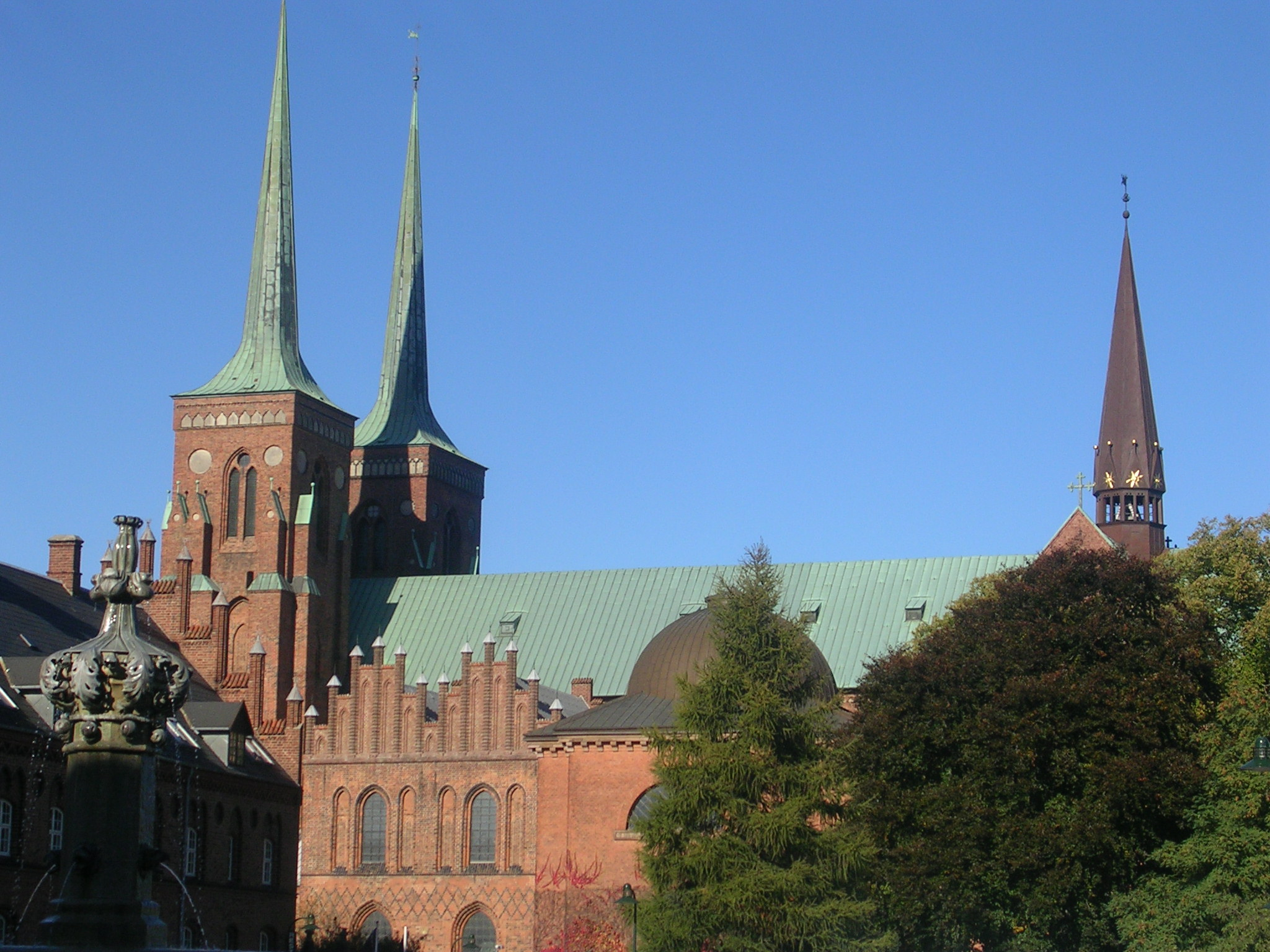 Roskilde domkirke Author: Väsk Corrected version of this image